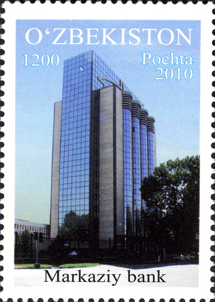 Stamps of Uzbekistan, 2010; Central bank of Uzbekistan building